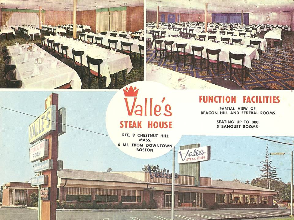 This is a scan of a post card in my personal collection. The post card shows exterior and interior images of the Valle's Steak House located in Newton, Mass. The card is from the early 1960s. It does not have a copyright mark and there is no reason to believe that a copyright renewal was ever attempted. The Valle's Steak House corporation ceased operations in 1991.